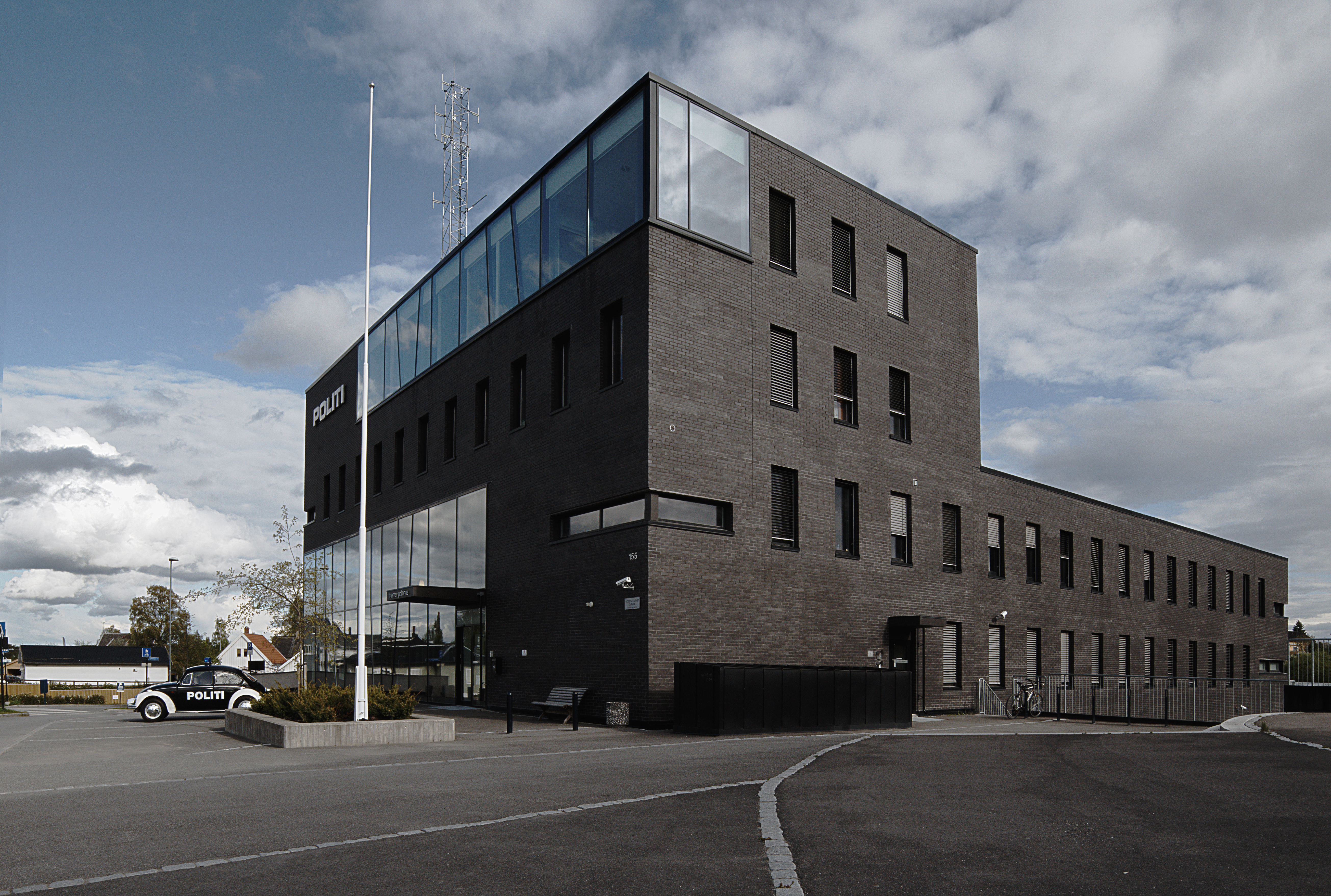 Hamar Policestation spring 2015. Full version